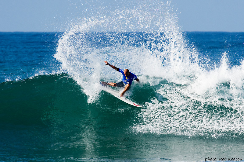 Kelly Slater surfing in the Boost Mobile Pro event at Lower Trestles, CA in 2006.